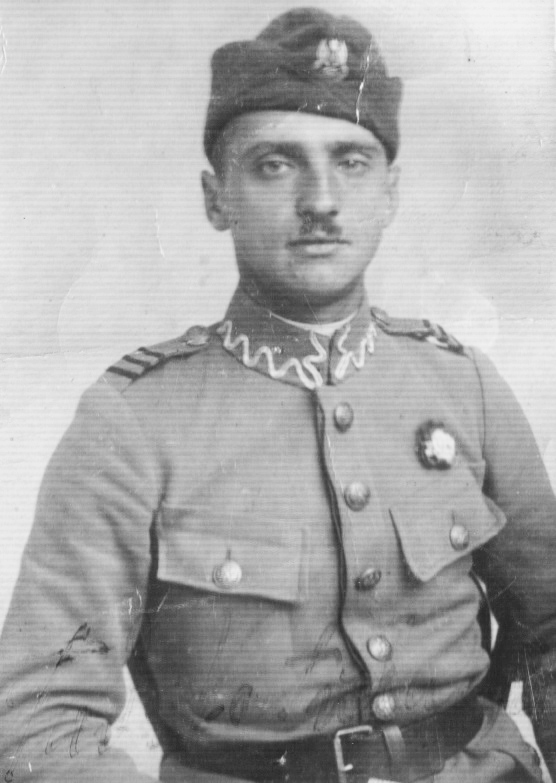 Tadeusz Vetulani with the Polish Volunteer Army unifrom.